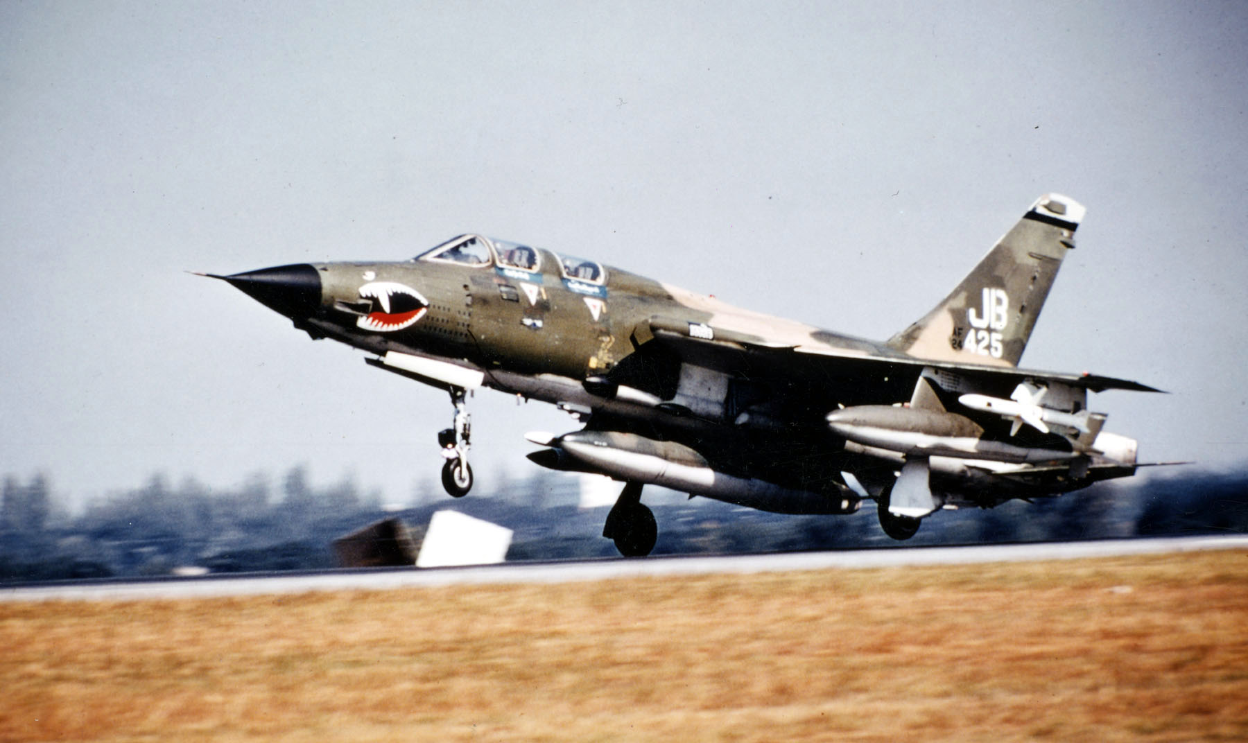 A U.S. Air Force F-105G Thunderchief aircraft (s/n 62-4425, crew Jim Boyd and Kim Pepperell) of the 17th Tactical Fighter Squadron, 388th Tactical Fighter Wing landing at Korat Royal Thai Air Force Base, on 29 December 1972. It is armed with AGM-45 Shrike and AGM-78 Standard anti-radiation missiles. This aircraft is today on display at Blissfield, Michigan (USA). [Original text mistakenly said "Blissfield, Missouri".]